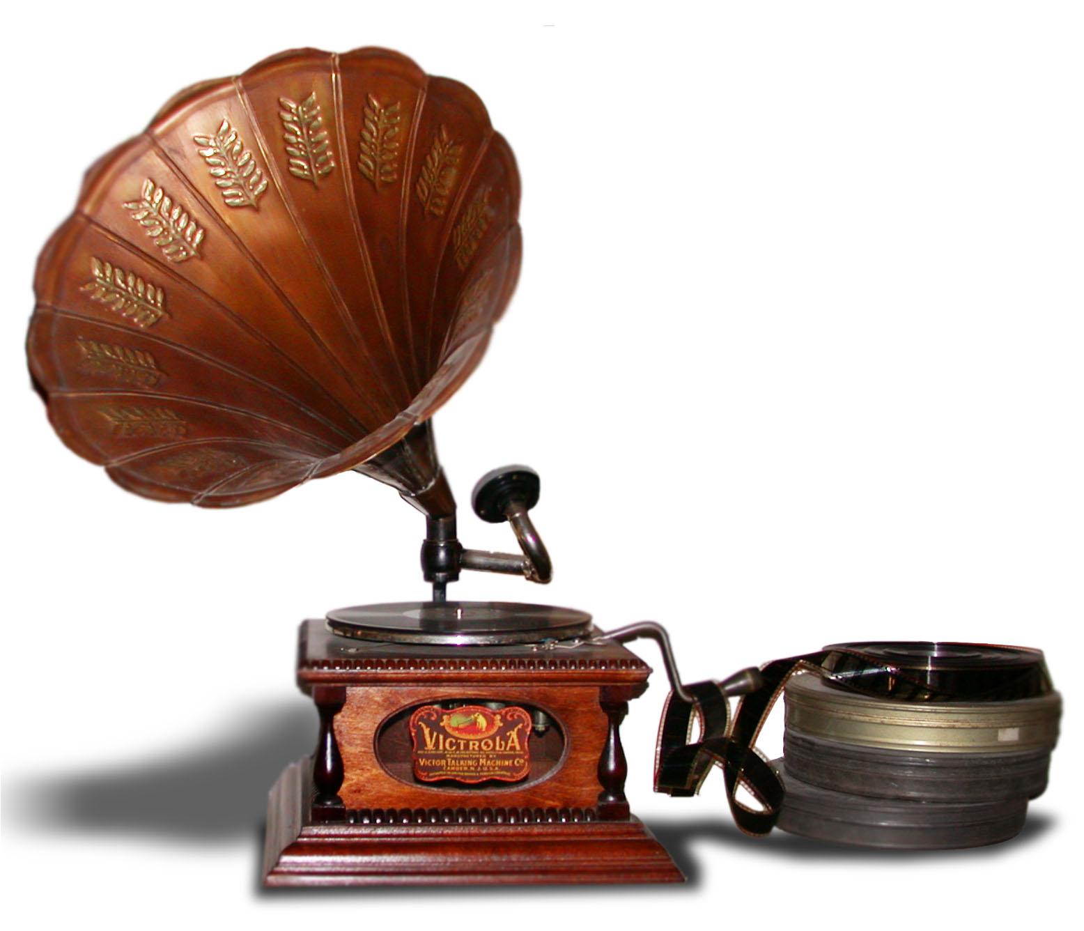 A reproduction phonograph with 35 mm kino films